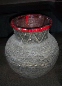 Armenian Urn by Dmn